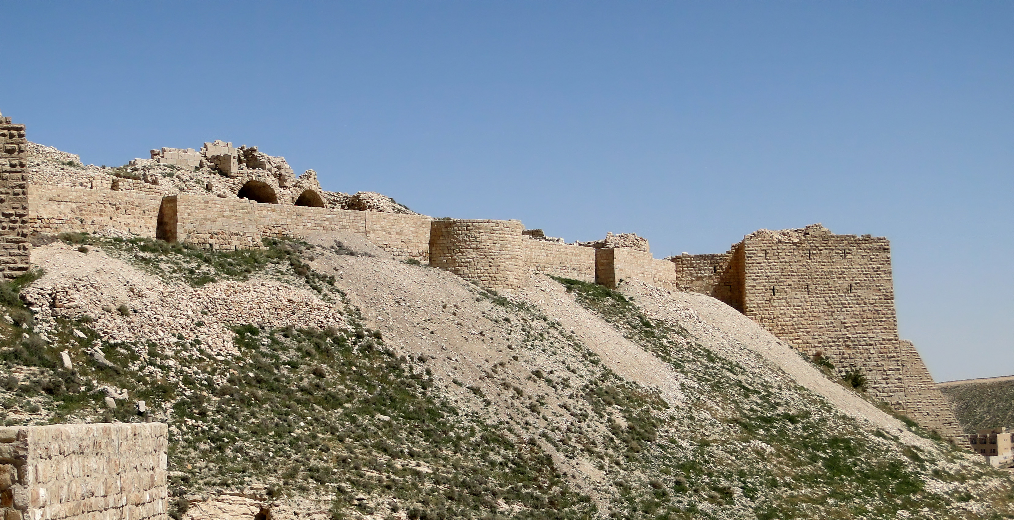 East outer wall of Montreal Castle, Shoubak, Jordan